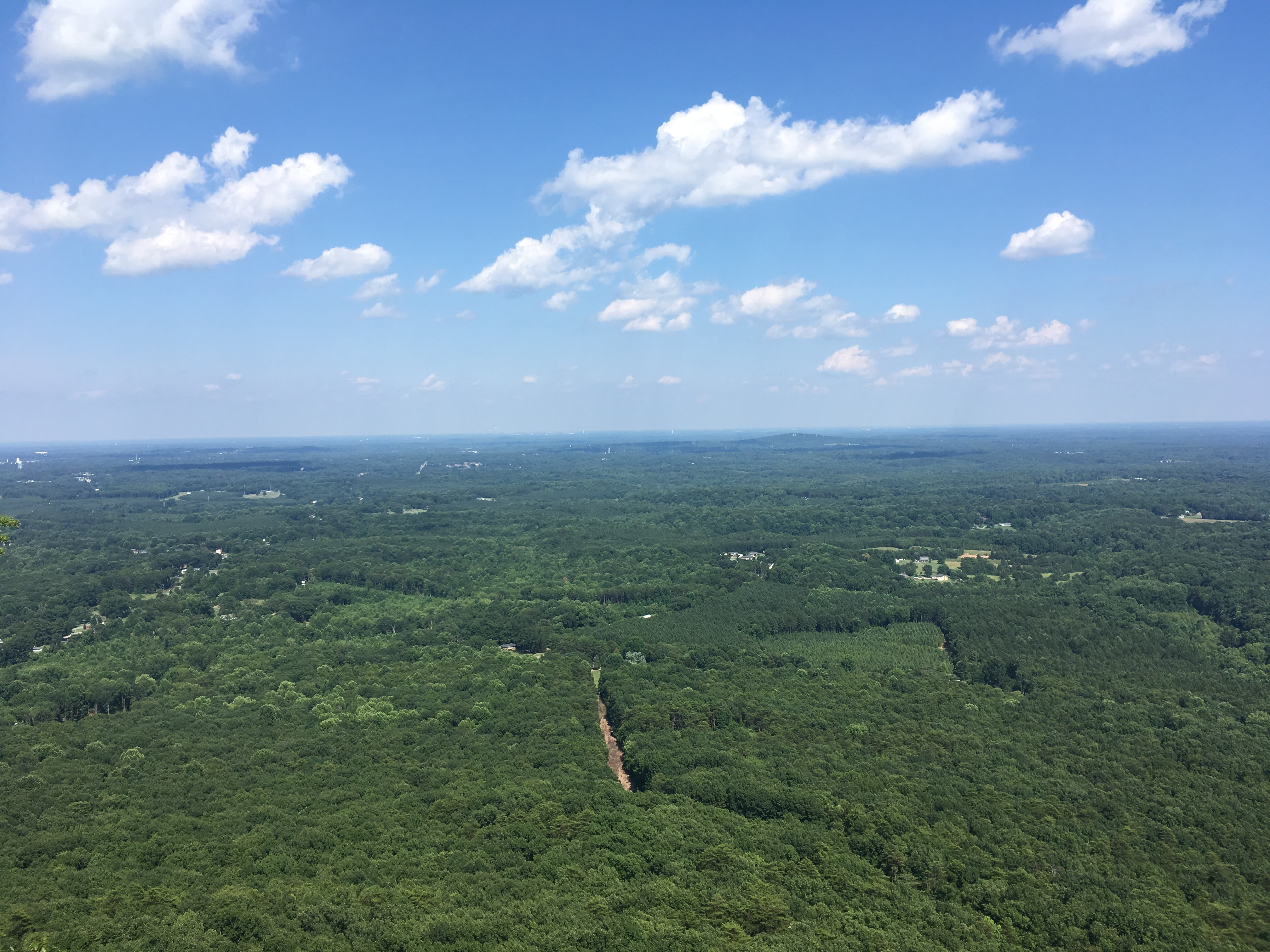 View east from the summit of Crowders Mountain in Crowders Mountain State Park in Gaston County, North Carolina